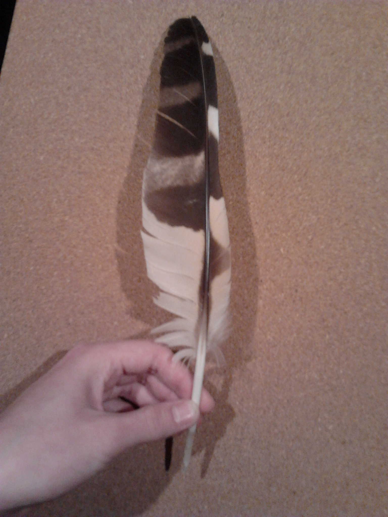 Flight feargher of Brown Fish-Owl (Ketupa zeylonensis) obtained at Praha Zoo